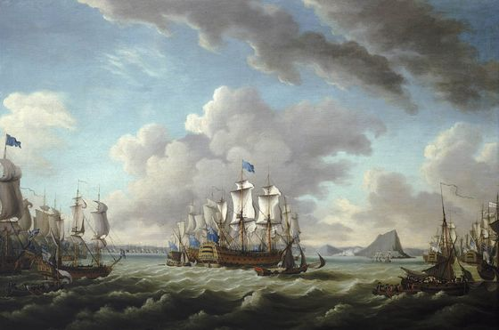 A contemporary interpretation of the Relief of Gibraltar by Earl Howe on 11 October 1782